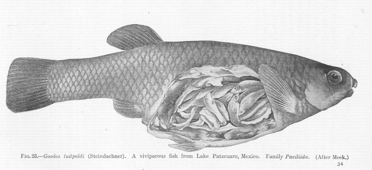 Goodea luitpoldi (Steindachner). A viviparous fish from Lake Patzcuaro, Mexico. Family Paciliidae Subject: Cyprinodontiformes Tag: Fish